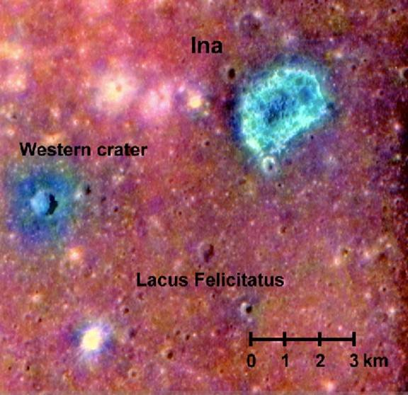 Crater-like feature Ina on the Moon, in Lacus Felicitatis (a map). Image in falce colors showing chemical composition of the surface.